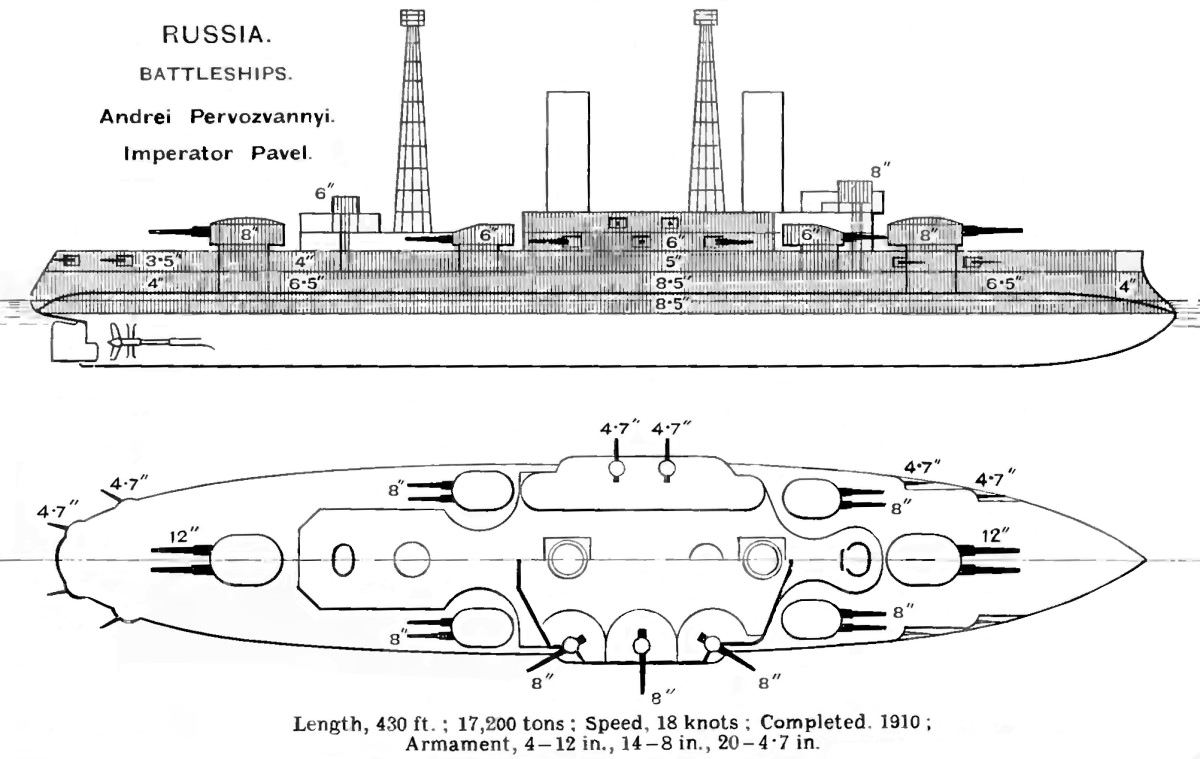 Right elevation and deck plan diagrams depicting Russian Andrei Pervozvanny class battleship. Numbers on top diagram show armour thickness (shaded areas) in inches. Numbers on bottom diagram show size of guns in inches.